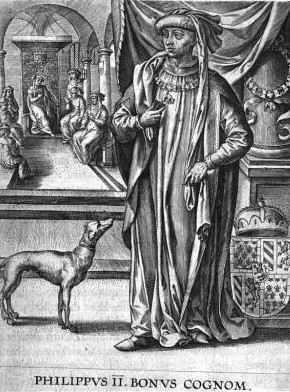 Philip the Good